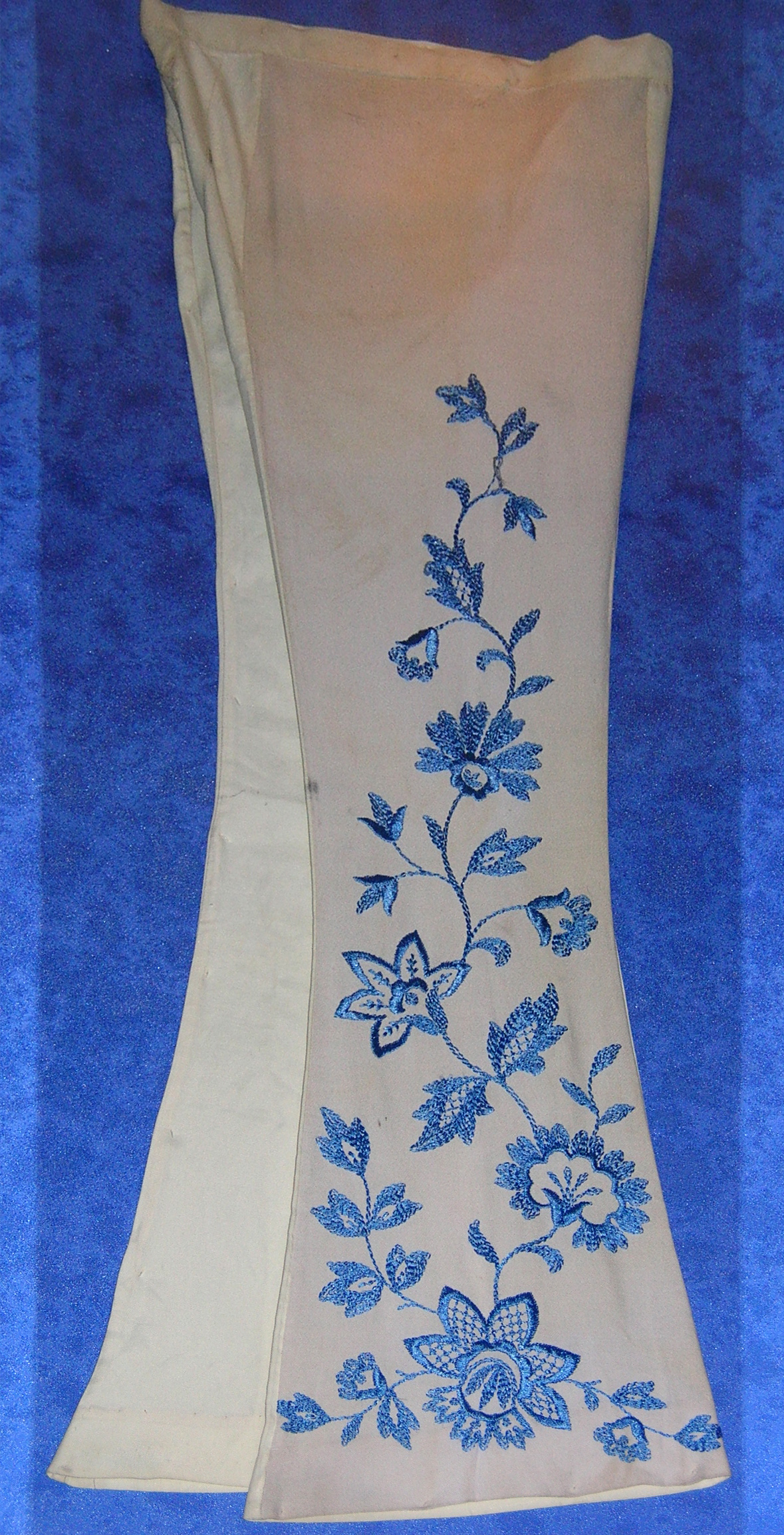 Bell-bottoms worn by Jimi Hendrix at the famous Hollywood Bowl Concert on September 14, 1968. Halfway through the concert Jimi tells the audience that he is sad that one of his favorite bands, Cream has broken up. In tribute, he and the Experience then played "Sunshine of Your Love." Shortly after this song, the audience is warned not to splash water on stage so no one will be electrocuted. On display at the Hard Rock Cafe Hollywood at Universal CityWalk, California.